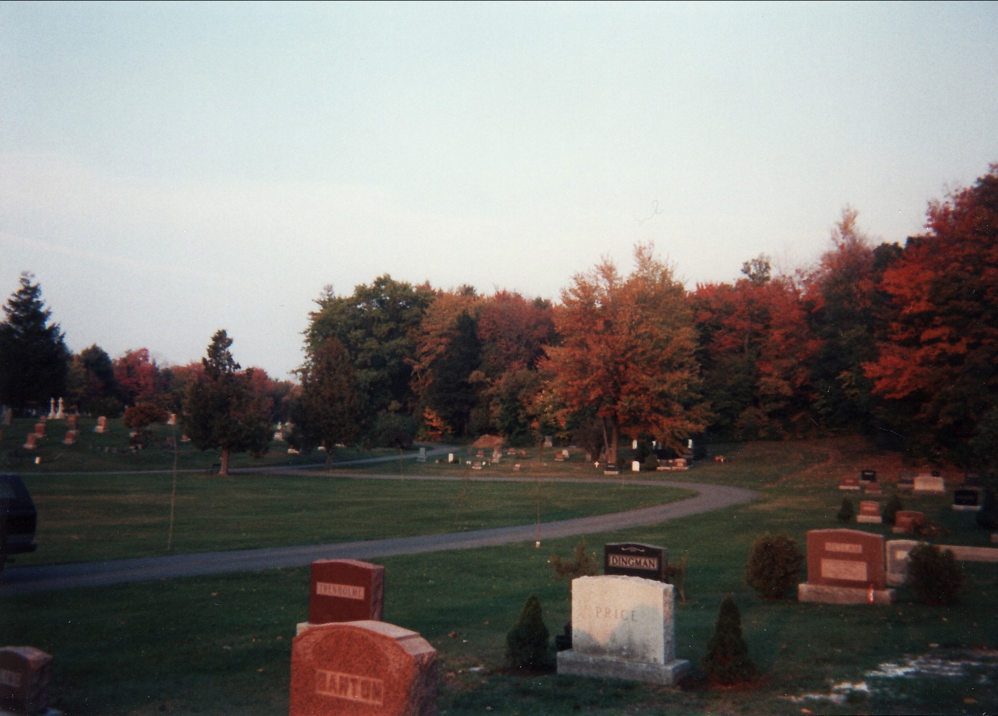 Burial site of Major-General C.B. Price